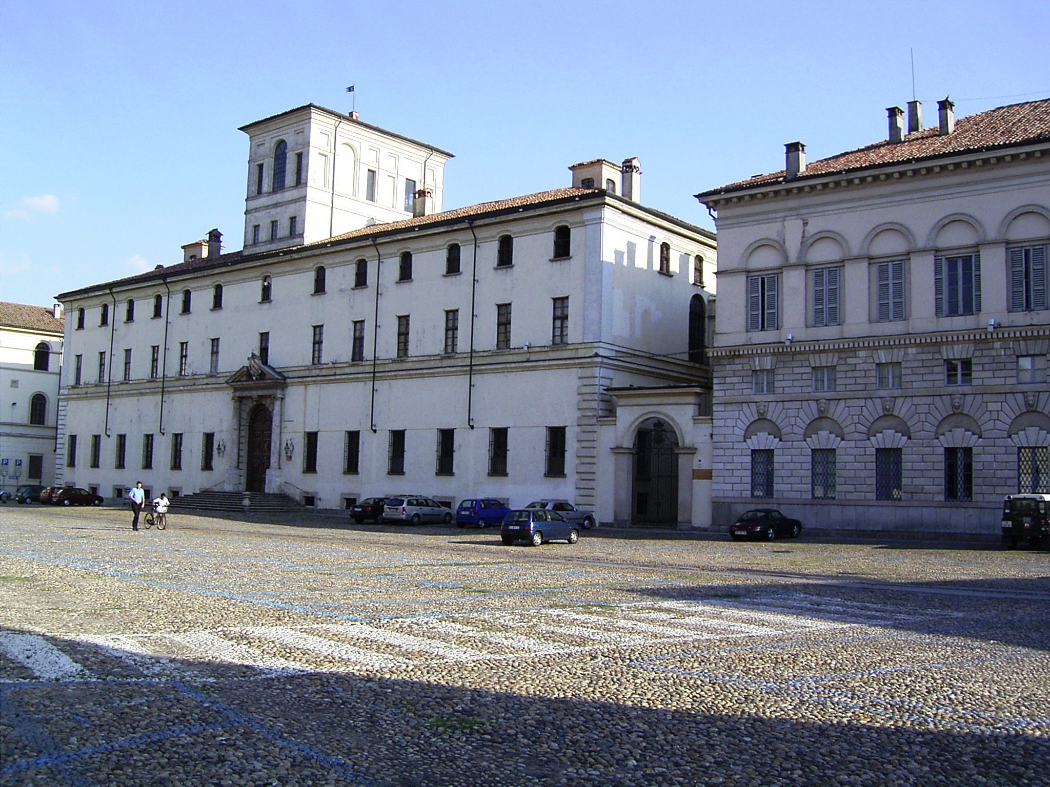 Collegio Ghislieri, one of the historical residences for students in Pavia, Italy